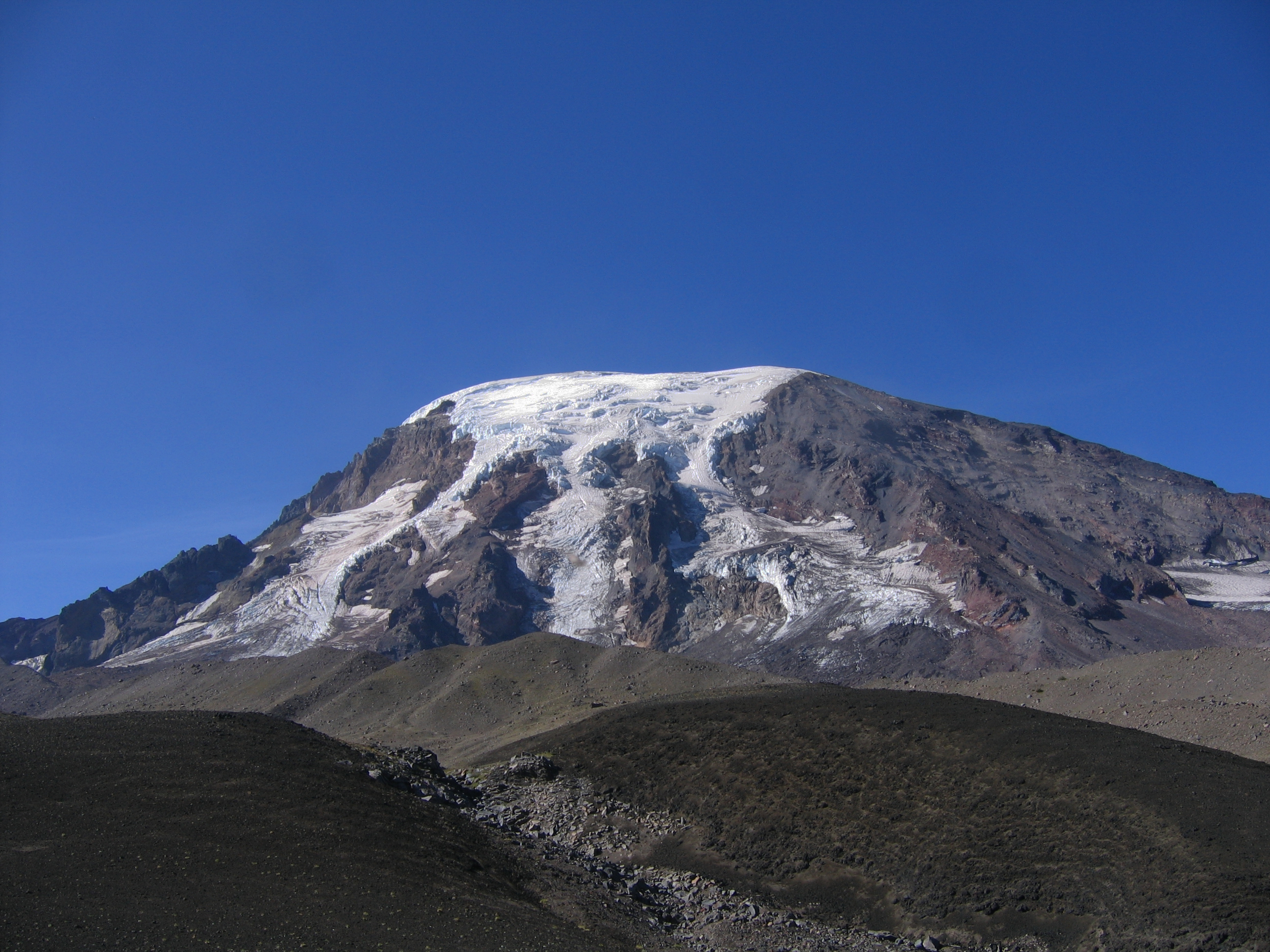 Mount Adams (Washington) from Devils Garden with Lyman and Wilson Glaciers visible.